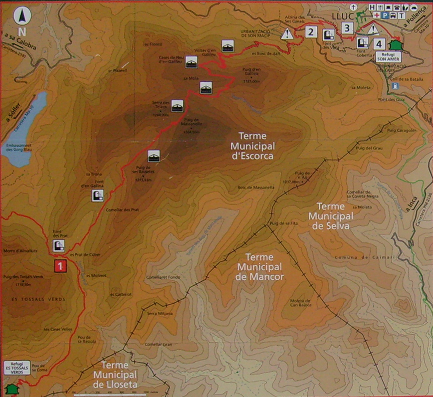 Map of GR 221 through Massanella Mountains